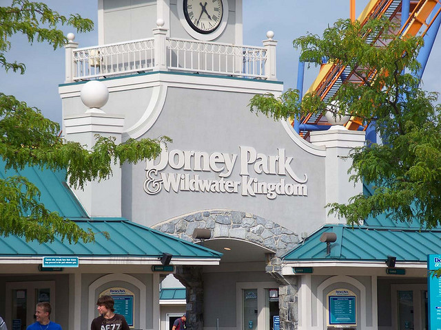 The current entrance for the Dorney Park & Wildwater Kingdom at Allentown, Pennsylvania.